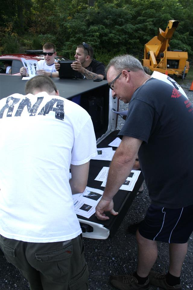 Finding The Check Points - Brian Shannon